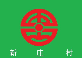 Flag of Shinjo Okayama